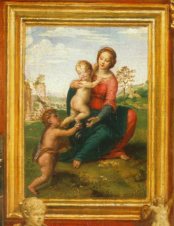 Tribuna of the Uffizi